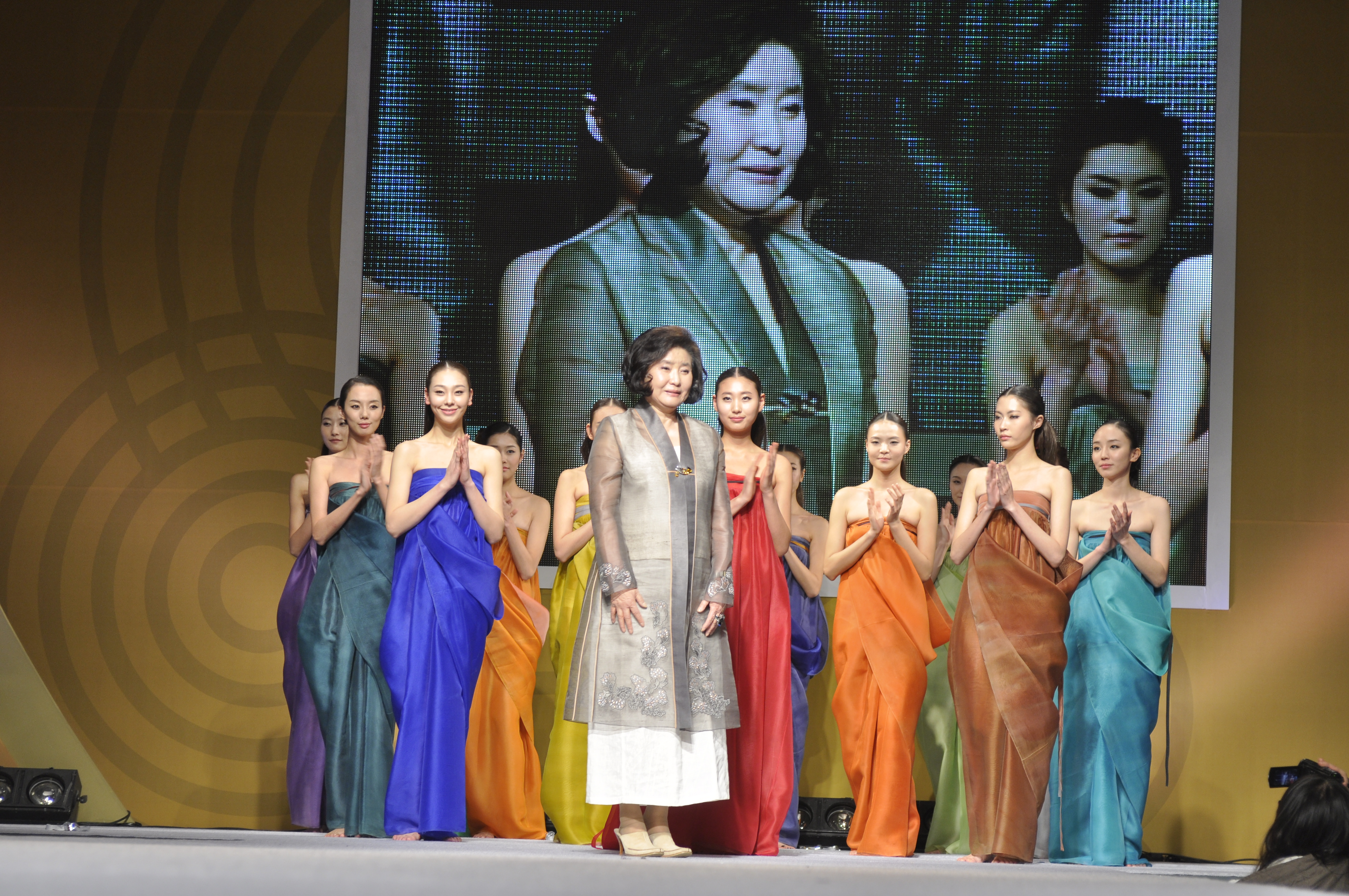 The Korean Culture and Information Service (KOCIS) celebrated 40 years as Korea’s official cultural promotion agency with an anniversary reception on December 19 at the Westin Chosun Hotel. Modern reinterpretations of the hanbok by designer Lee Young-Hee